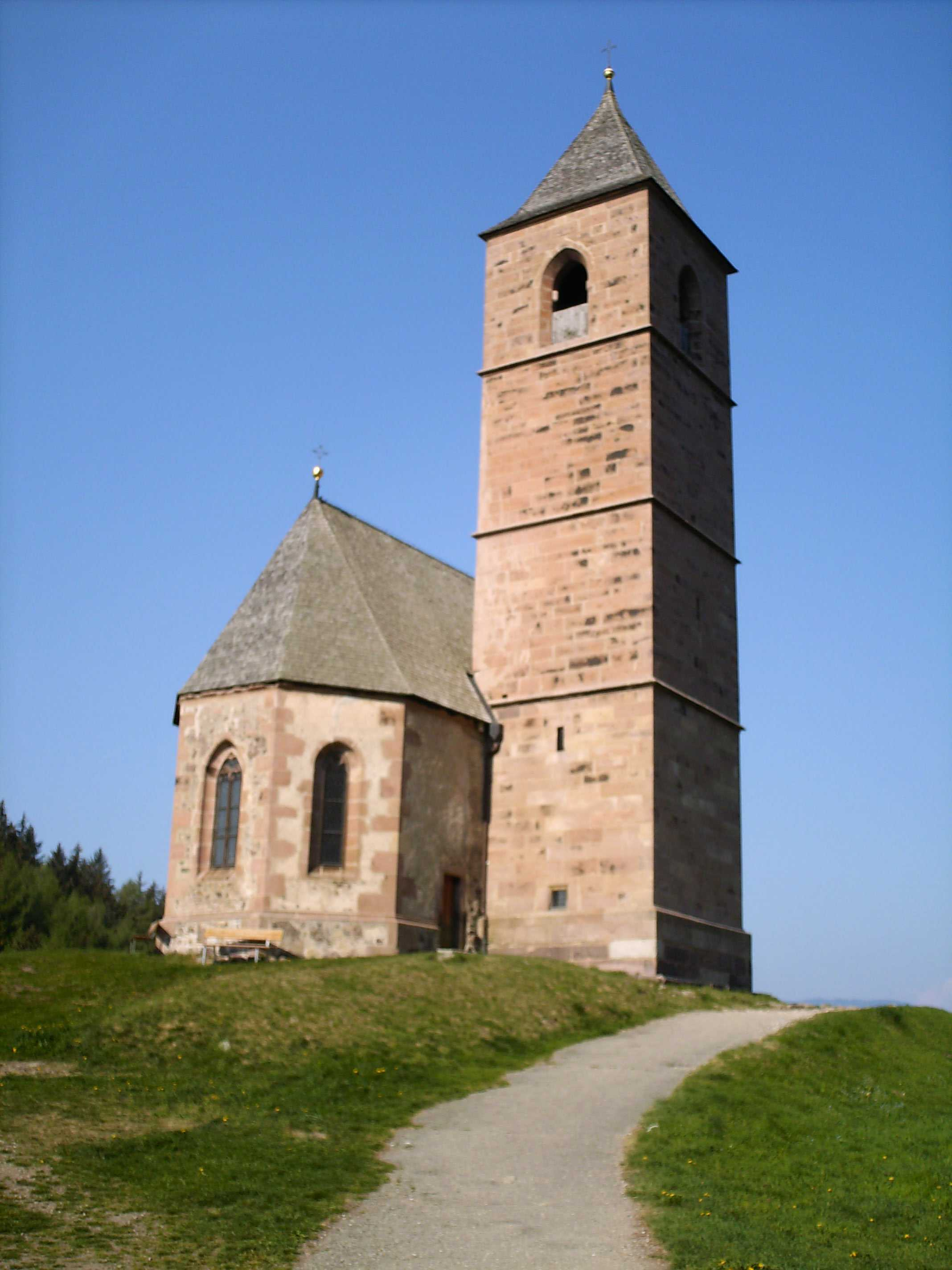 Hafling (BZ, Italy), St. Catherine's church